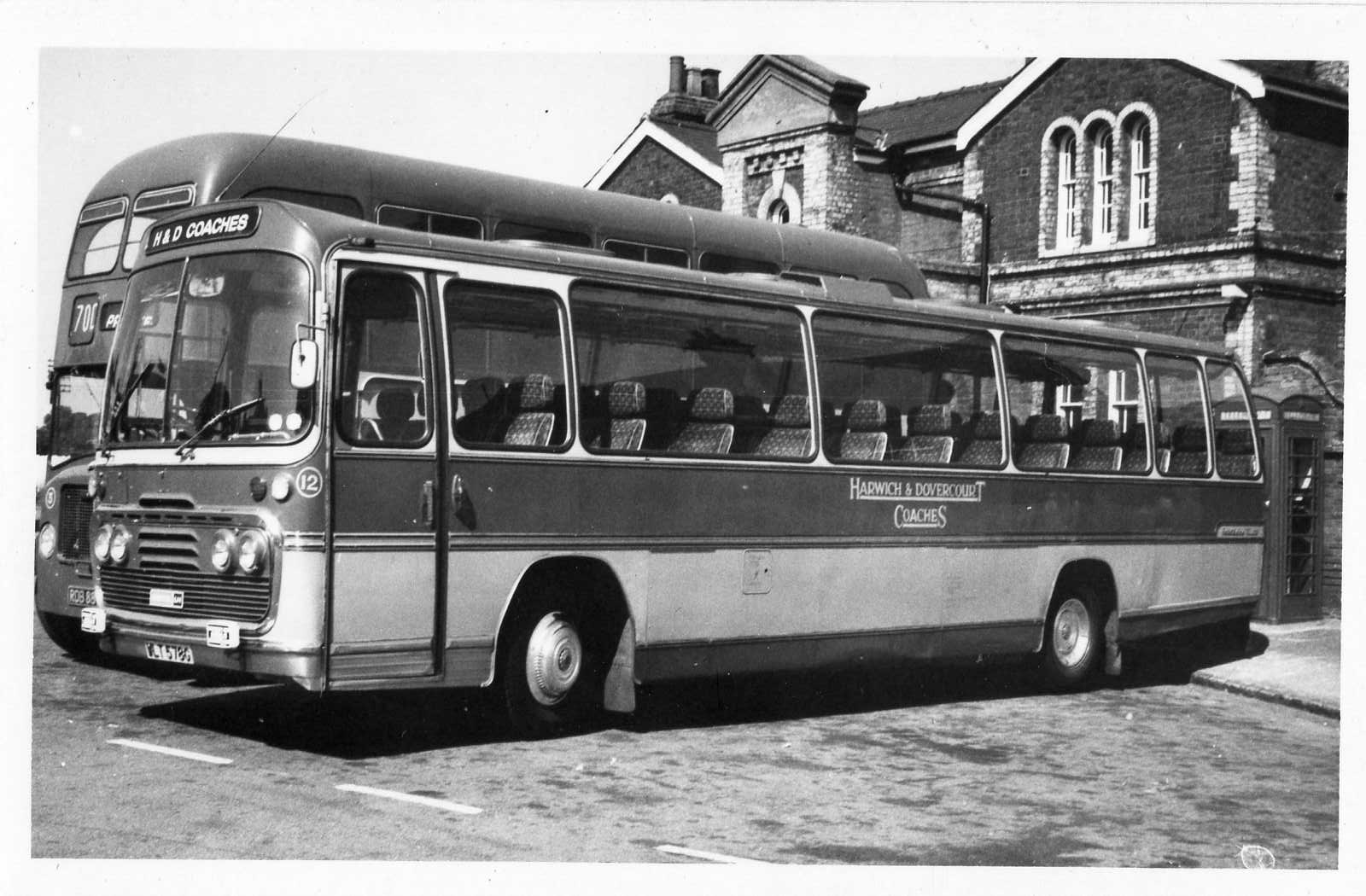 Basking in the sun at the Great Eastern station in Harwich Town was E.E. Pilbeam's beautiful ex-Grey Green Bristol LHL6L with Plaxton bodywork, one of the first LH coaches ever made. The livery was grey and red. In the background is RDB889 one of two Lolines which Pilbeam used at the time. PSV Sales had bought a lot of these from either Aldershot and District or North Western , as in this case, and a number found their way into the fleets of local operators. Pilbeam was extremely keen on former Ewer group vehicles.